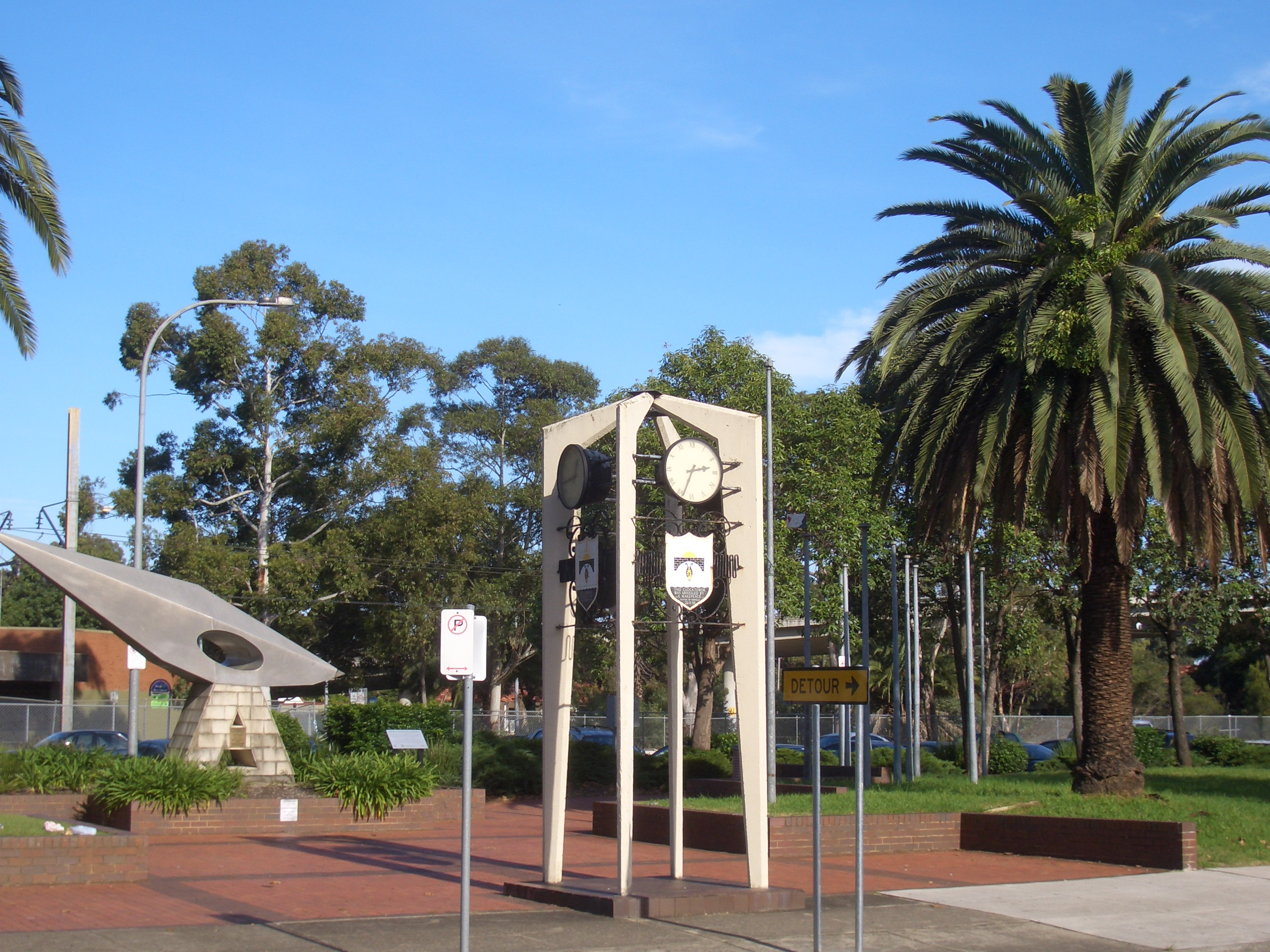 Fairfield, The Crescent Park